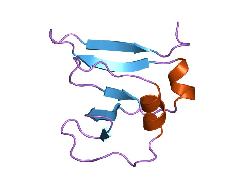 Cartoon representation of the molecular structure of protein registered with 1vcc code.